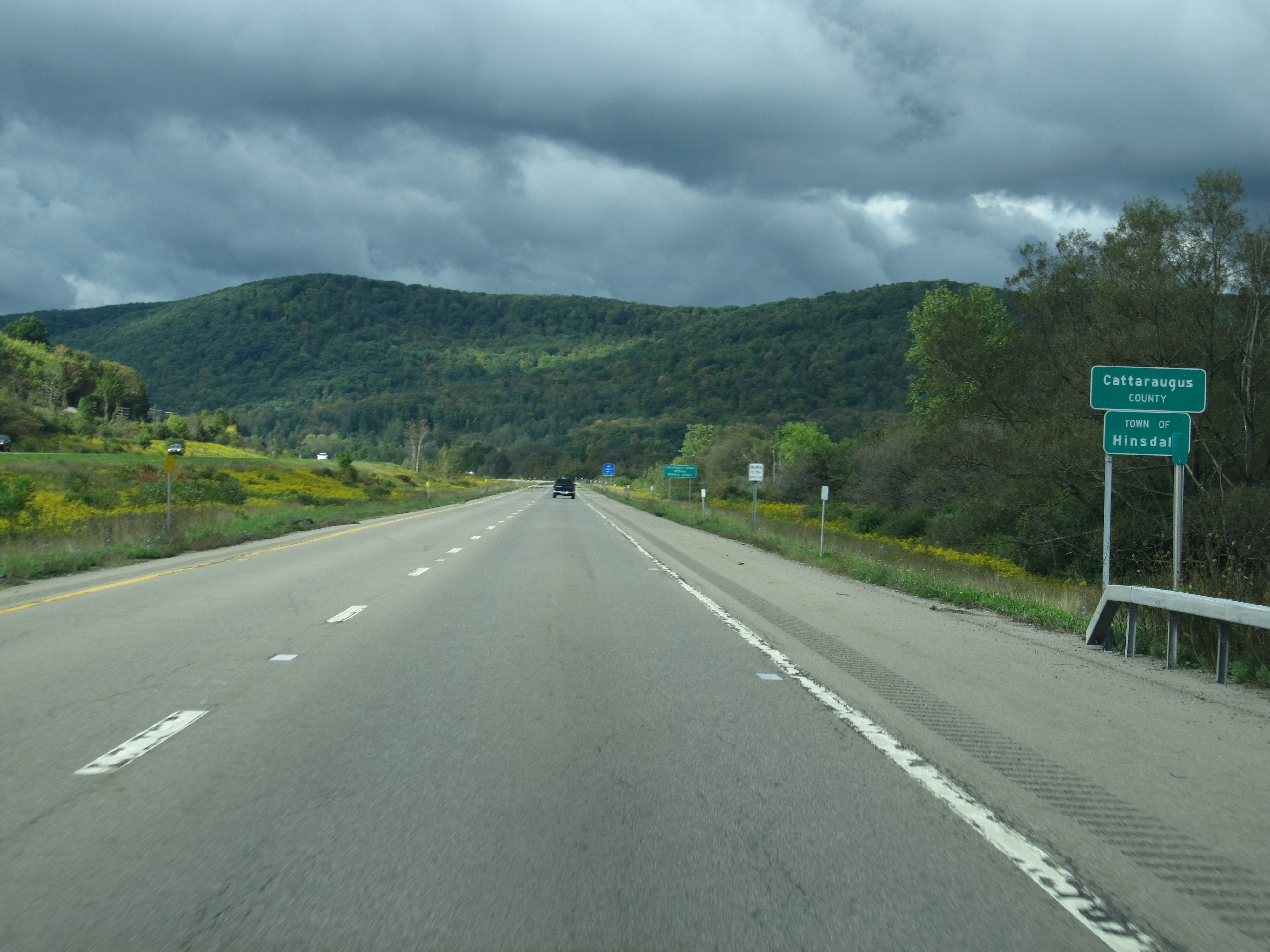 Entering Cattaraugus County, New York, on I-86 Westbound.